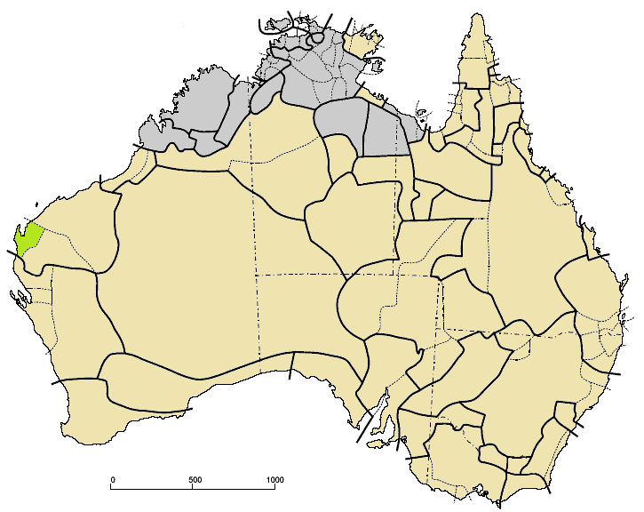 Kanyara languages (green) among other Pama–Nyungan (tan).